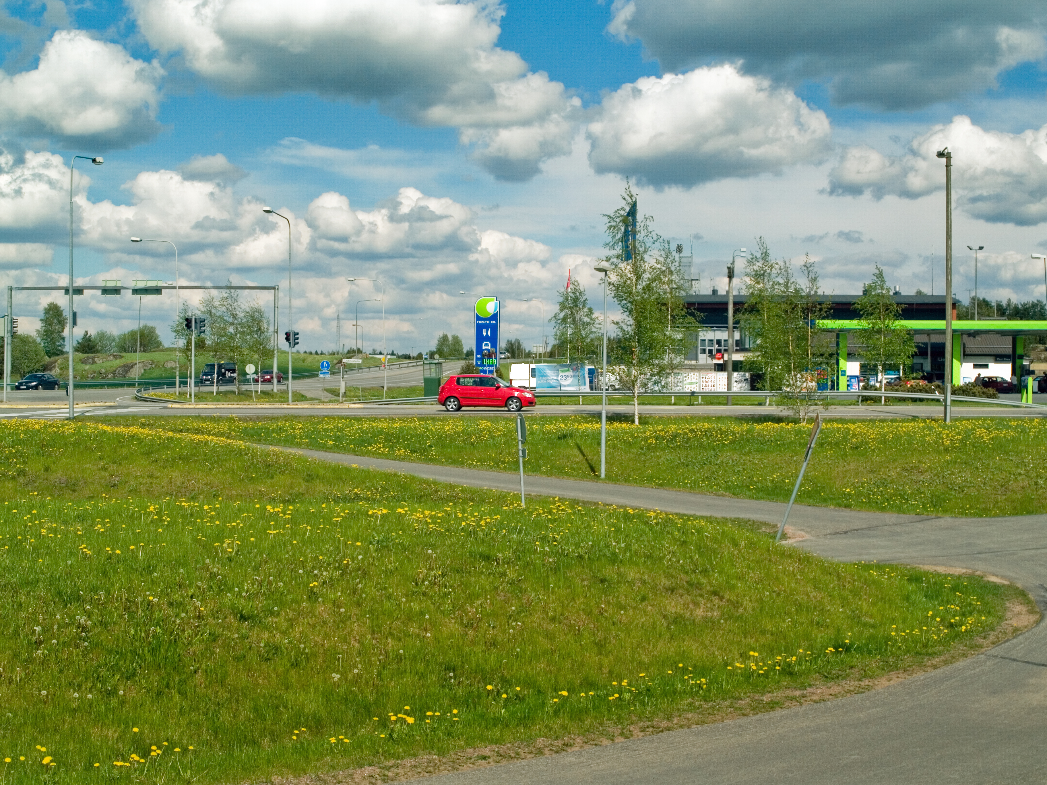 Loukinainen intersection on Turku–Hämeenlinna road, Lieto, Finland, May 2014.